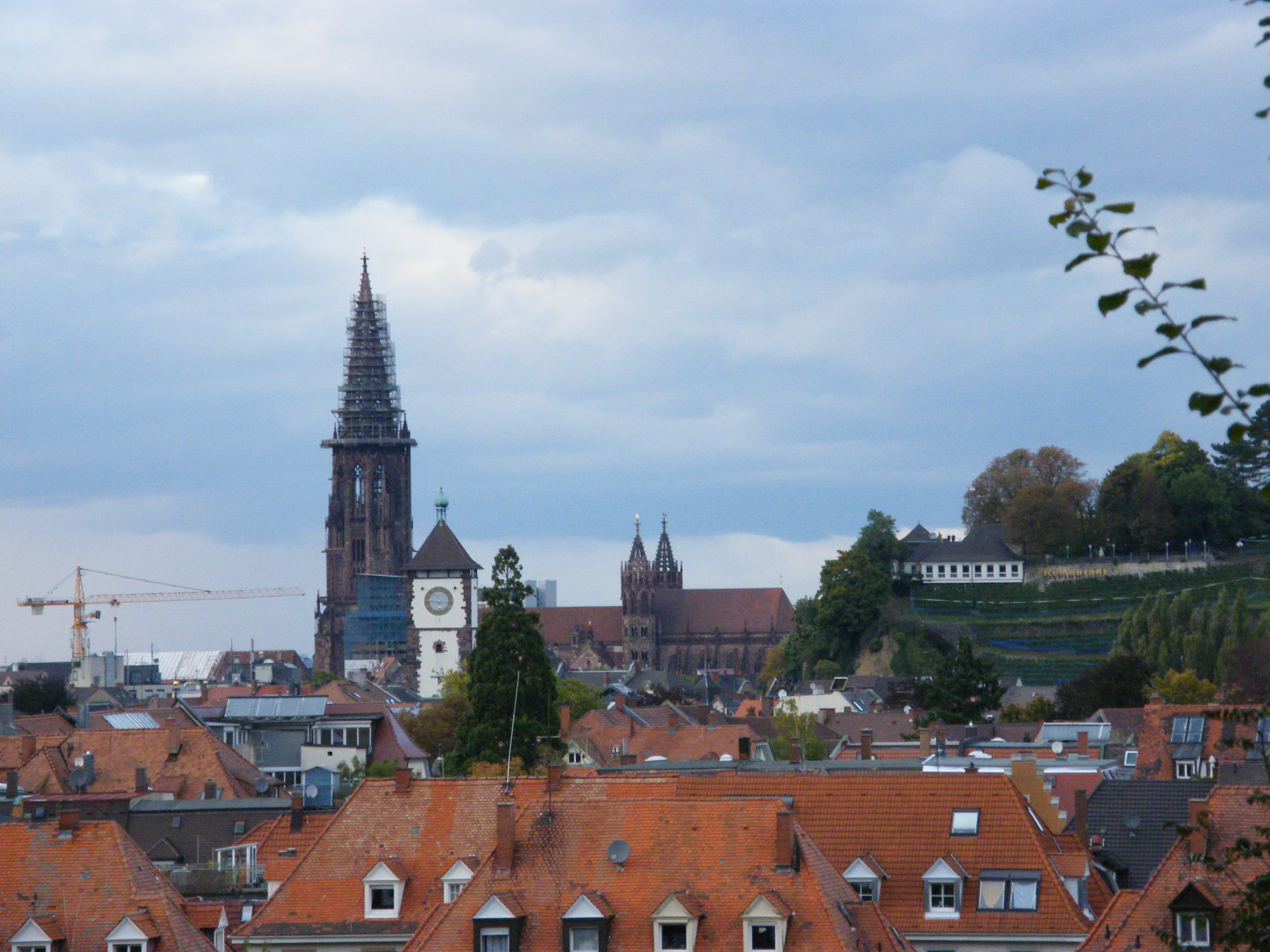 Freiburg im Breisgau (Germany)